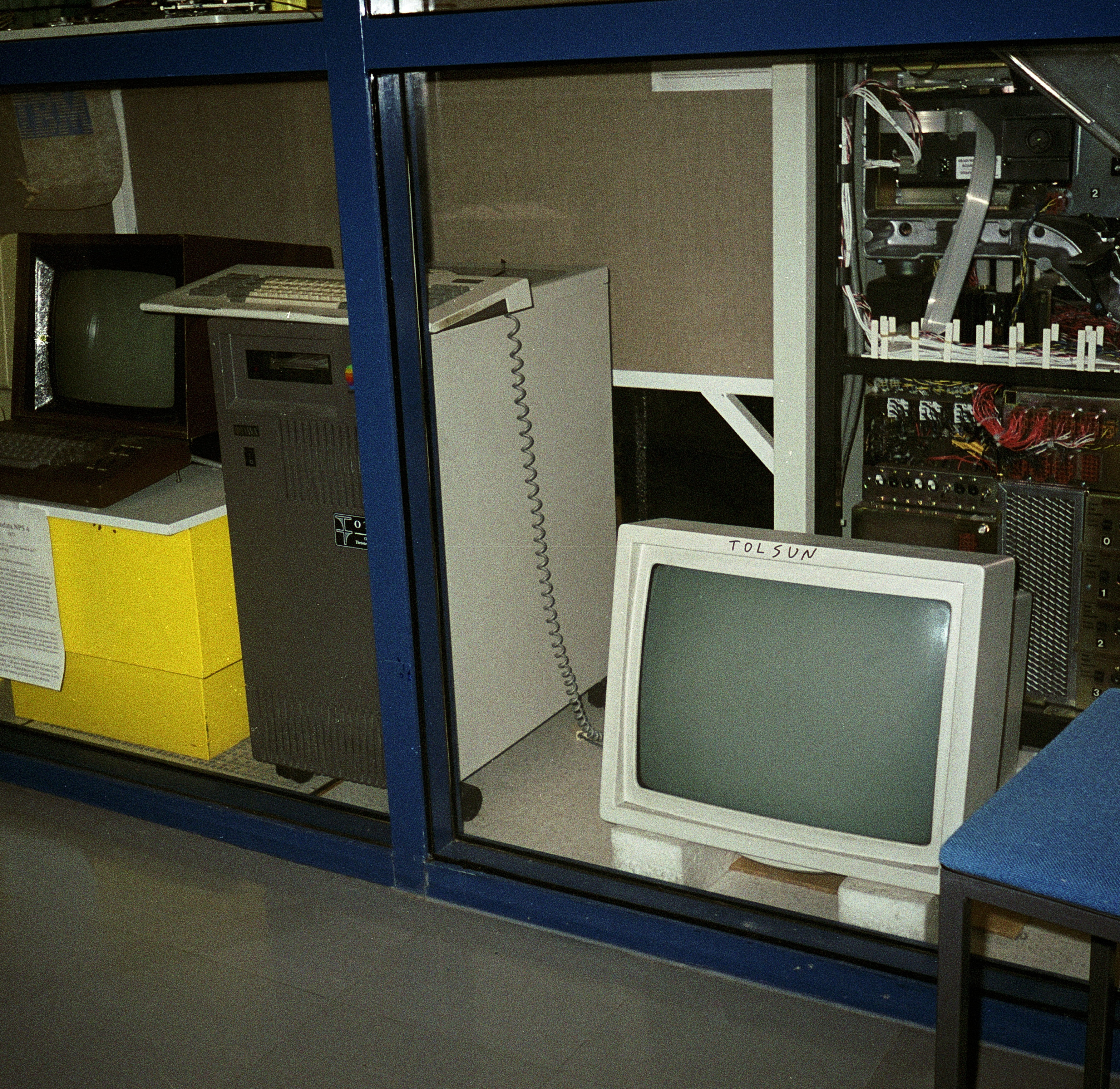 The first IRC server, . A Sun-3 server. Photograph of the server on display near the University of Oulu computer centre in 2001. The machine itself is the gray box in the middle of the picture, behind the bar. Monitor is on the floor, labelled appropriately.